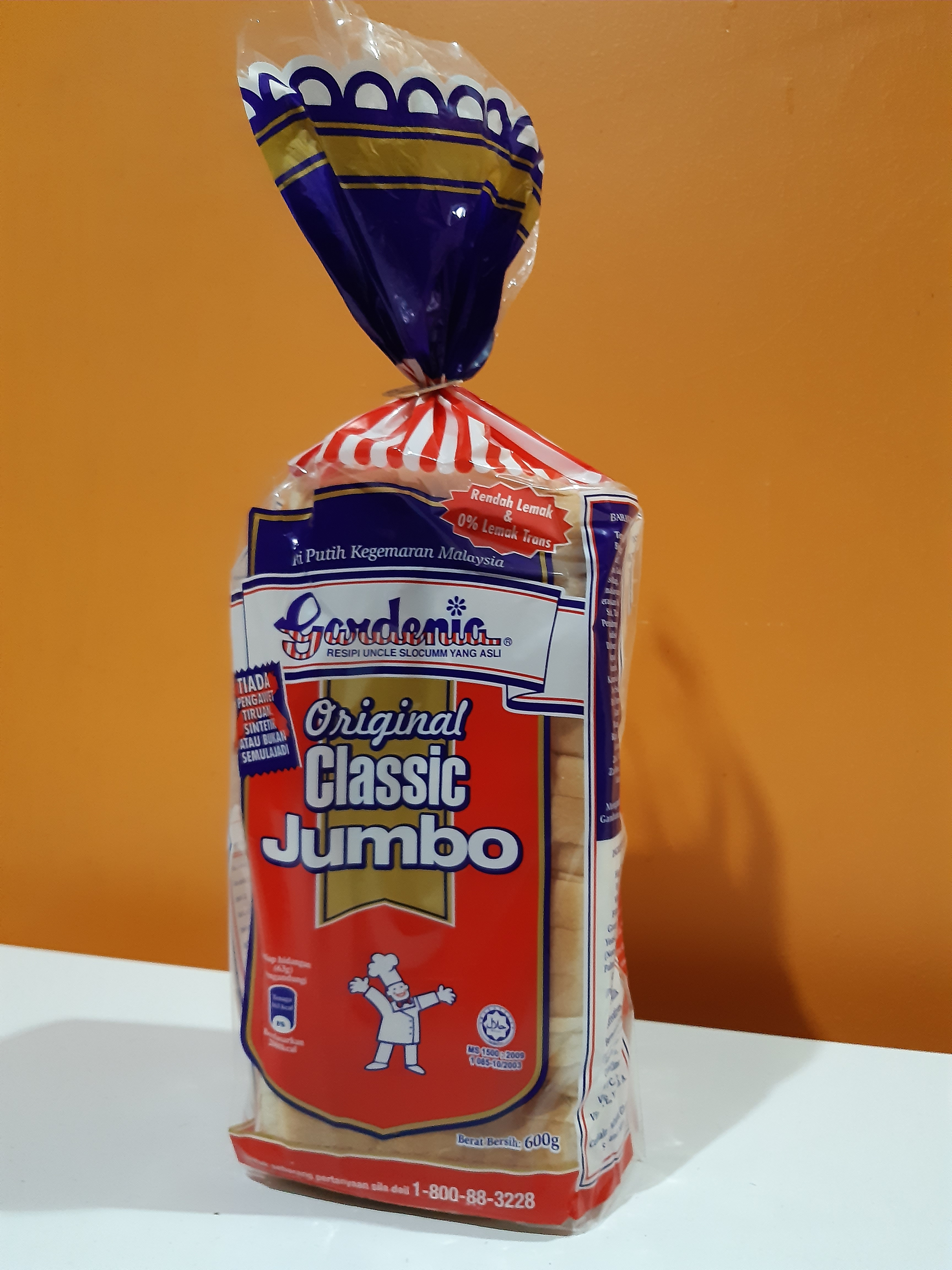 White bread gardenia